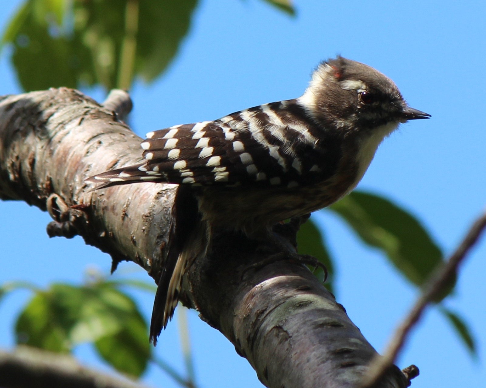 Dendrocopos kizuki(Japanese Pygmy Woodpecker), male on tree in Japan.